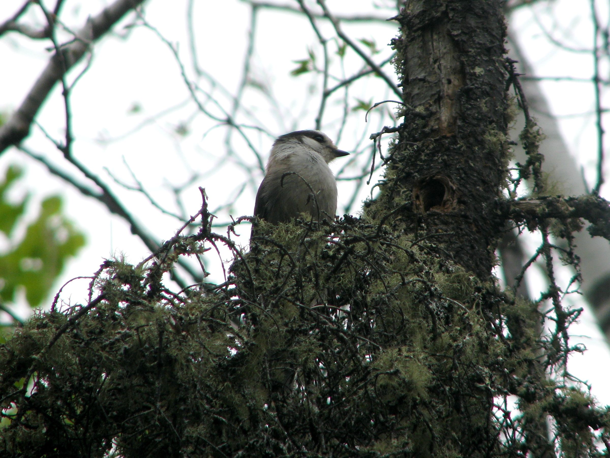 Gray Jay, Voyageurs National Park